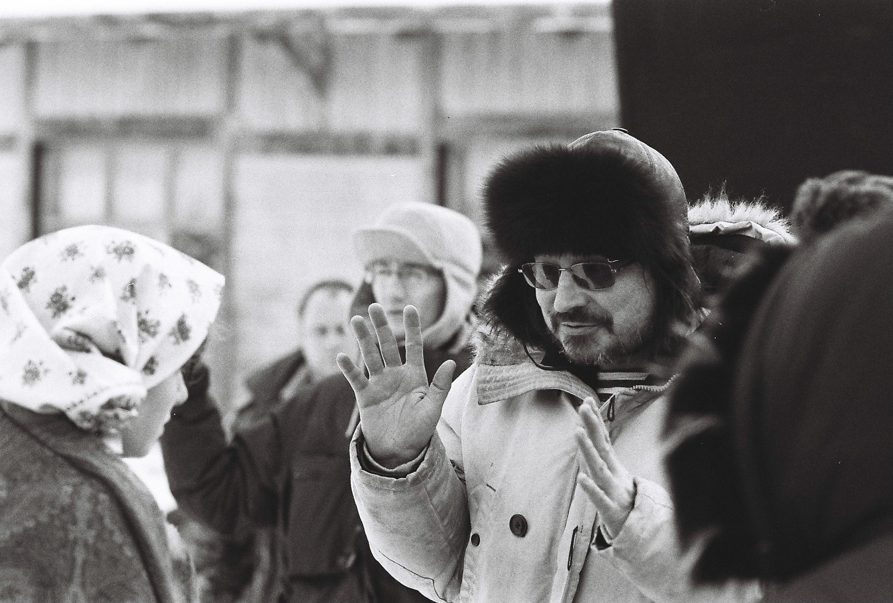 Director Alexey Balabanov on set of "Morfiy (Morphine)" movie